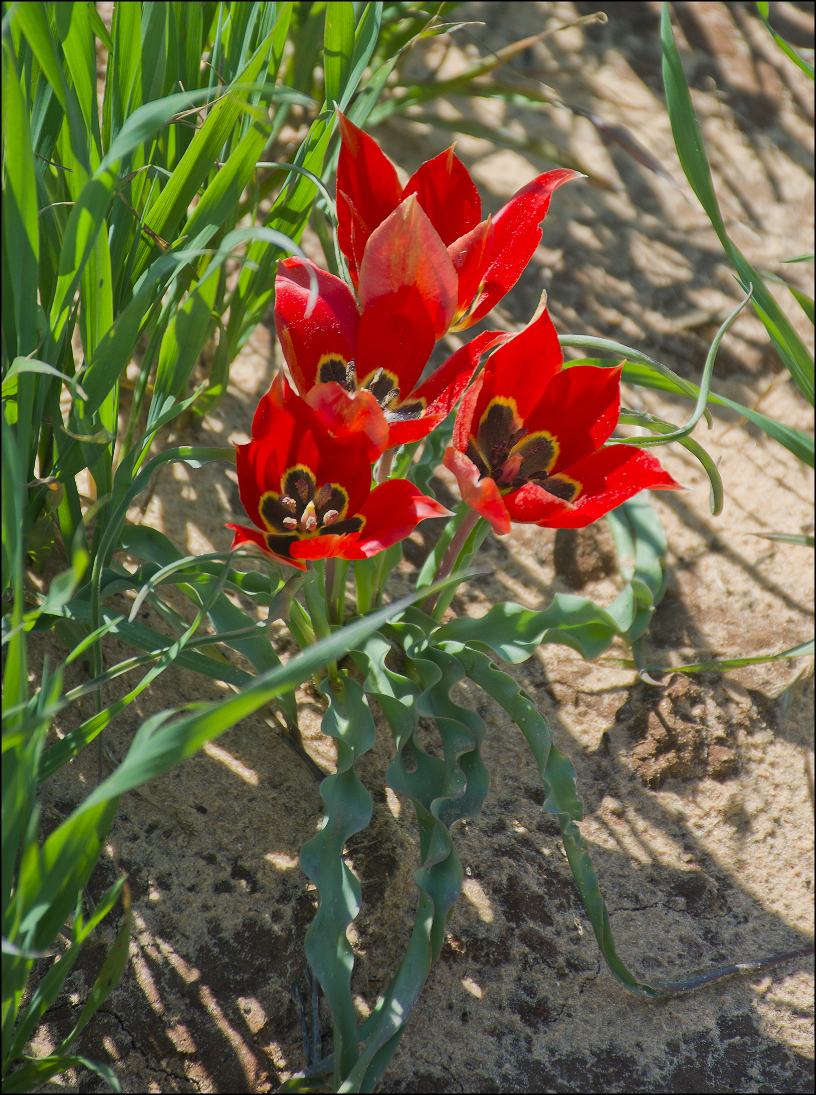 Tulipa agenensis sharonensis, Hadera, HaSharon, Israel